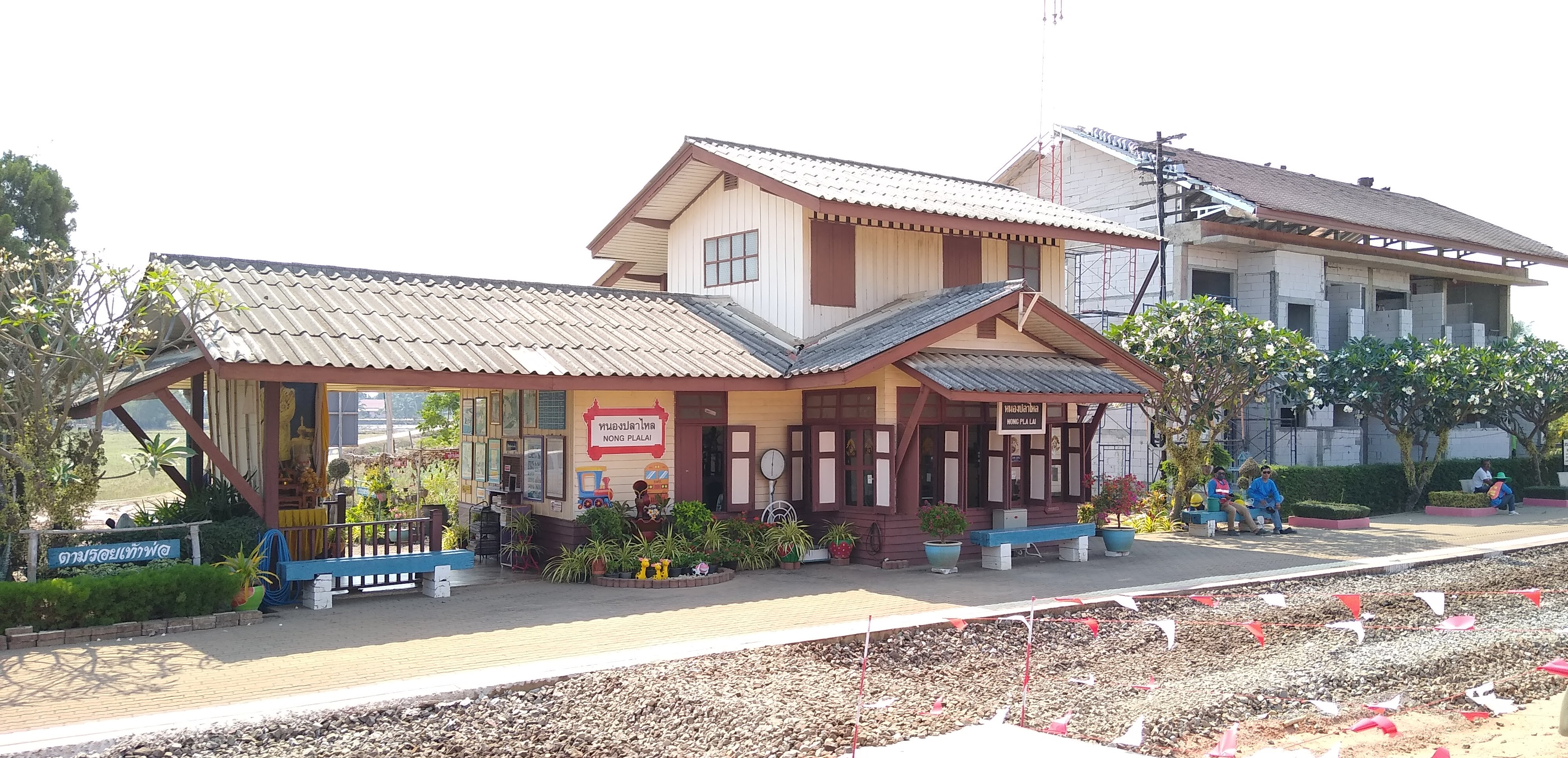 Nong Pla Lai railway station.